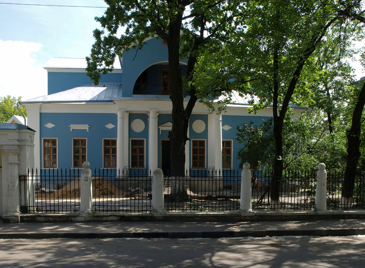 Denisovsky Lane, Moscow.